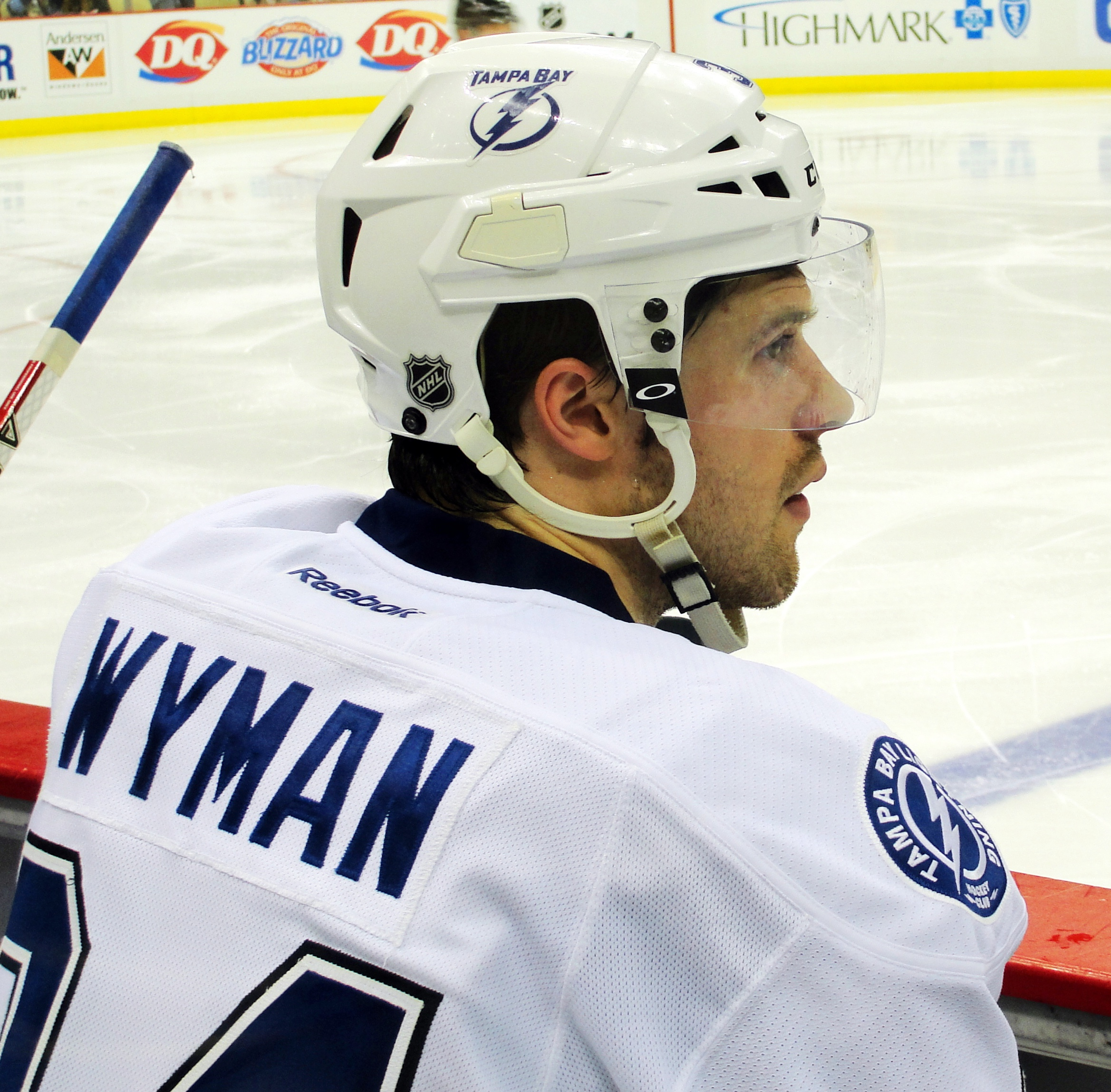 Tampa Bay Lightning forward J.T. Wyman during a February 25, 2012 game against the Pittsburgh Penguins at Consol Energy Center in Pittsburgh, PA.